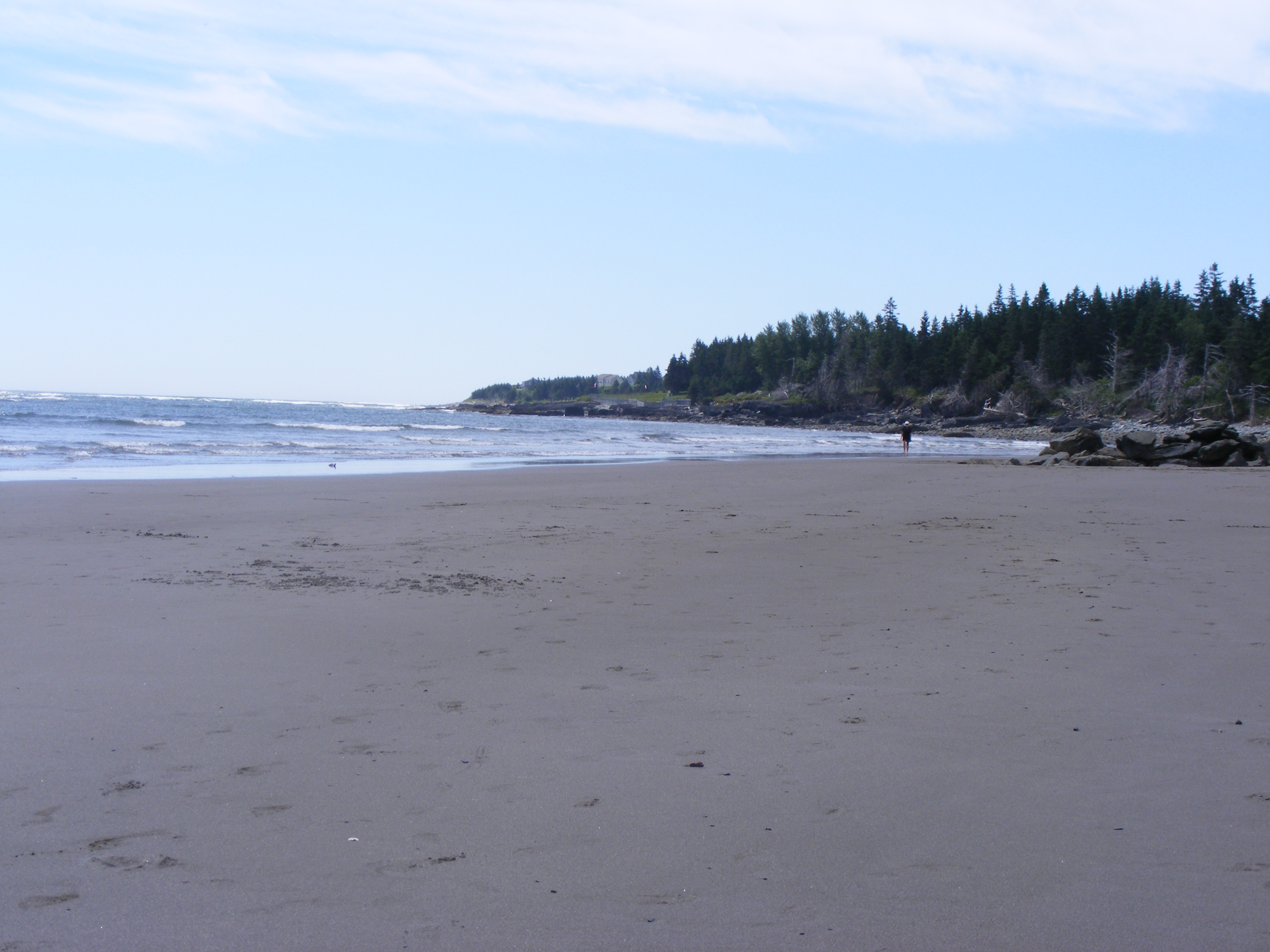 Rainbow Haven Beach, Cow Bay, Nova Scotia